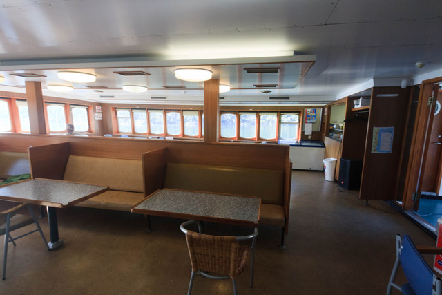 MF Skånevik, cafeteria interior on the upper deck.